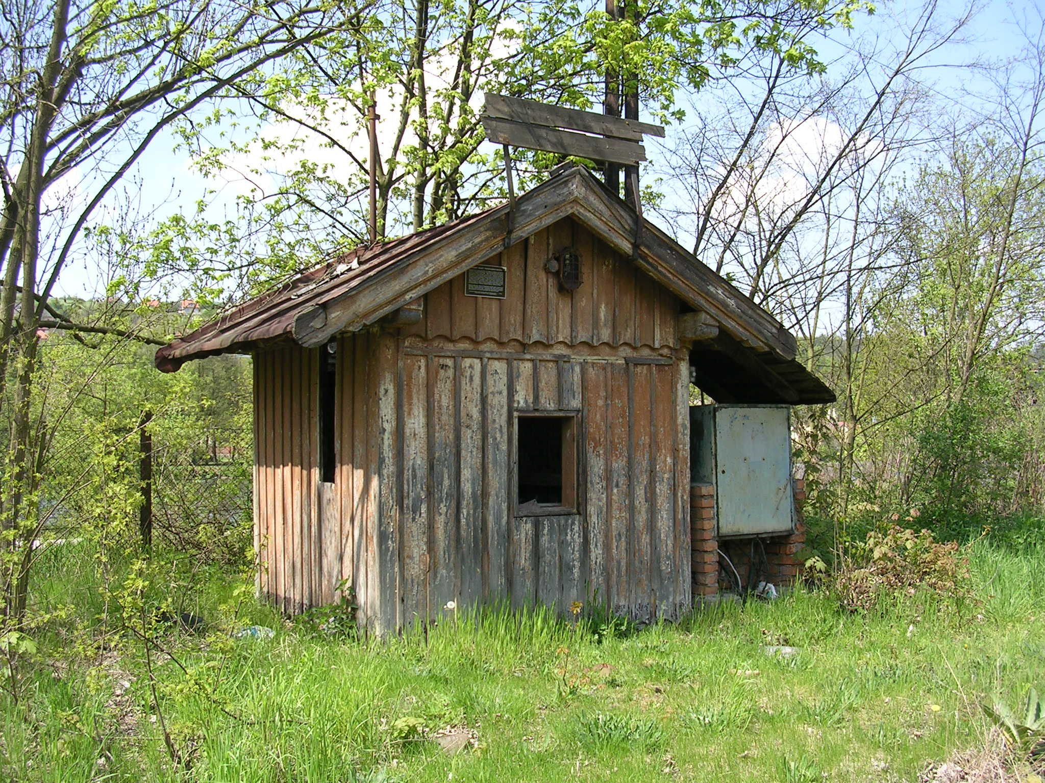 Davle, the Czech Republic.